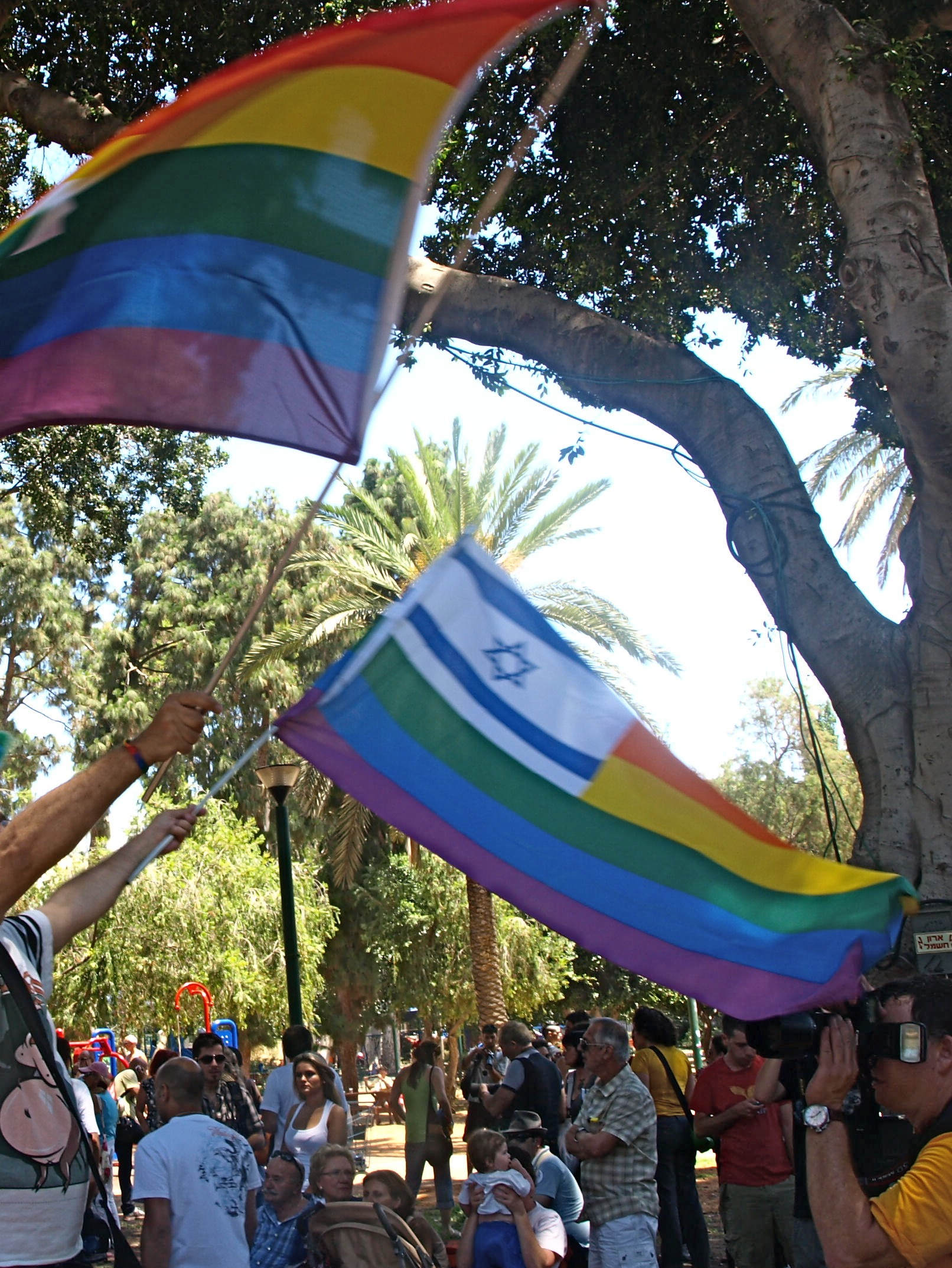 Flag of Israel combined with Rainbow flag in the Tel Aviv Pride parade 2009.